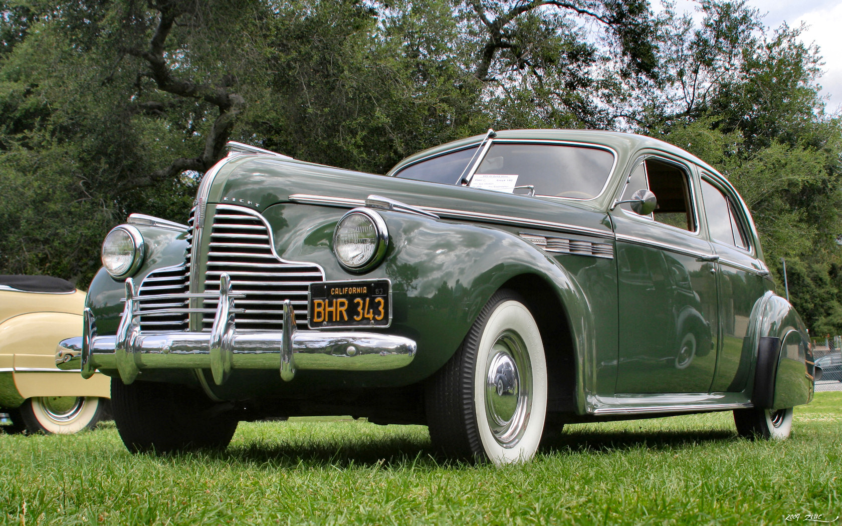 Glendale, CA, Buick Club, May 2, 2009